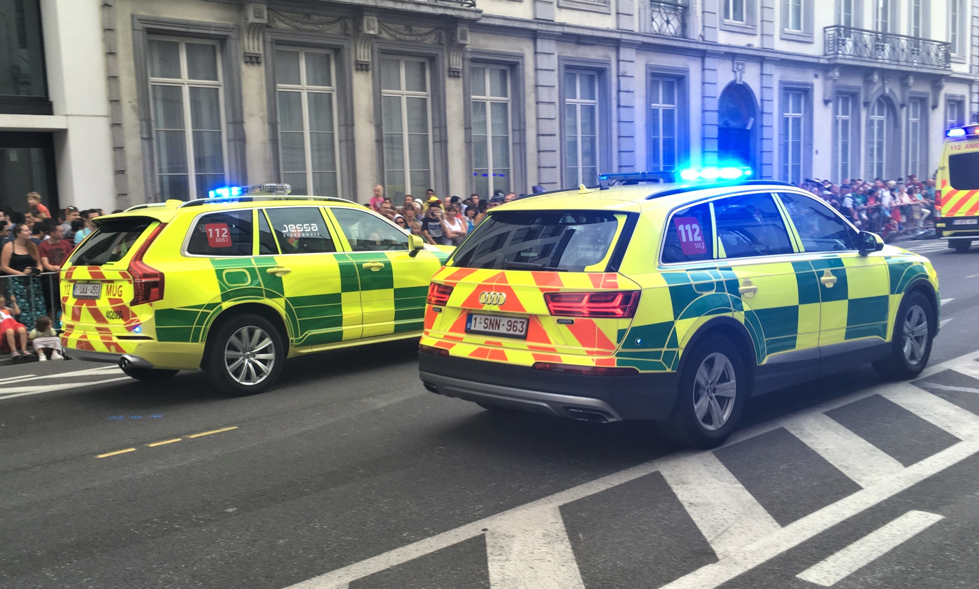 Belgian emergency physician vehicles (Emergency Medical Assistance) with Battenburg colors during the National Parade on July 21, 2018 (backside)